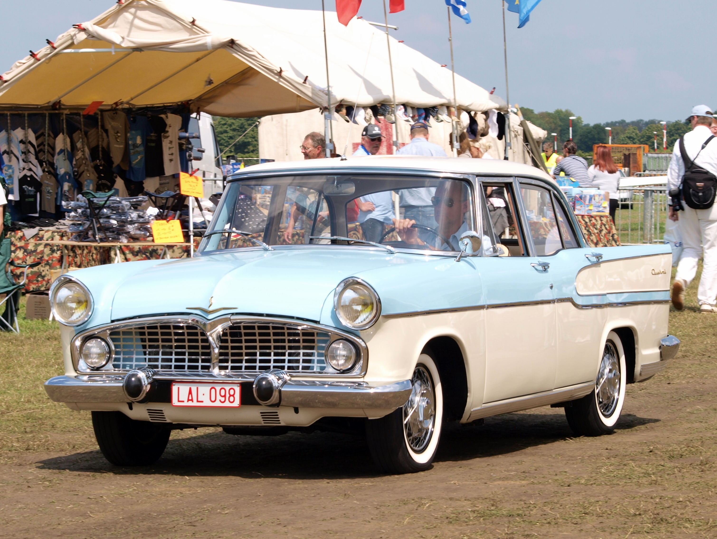 Simca Vedette Chambord - Photographed at The International Oldtimer Fly and Drive In 2010, Schaffen-Diest, Belgium.